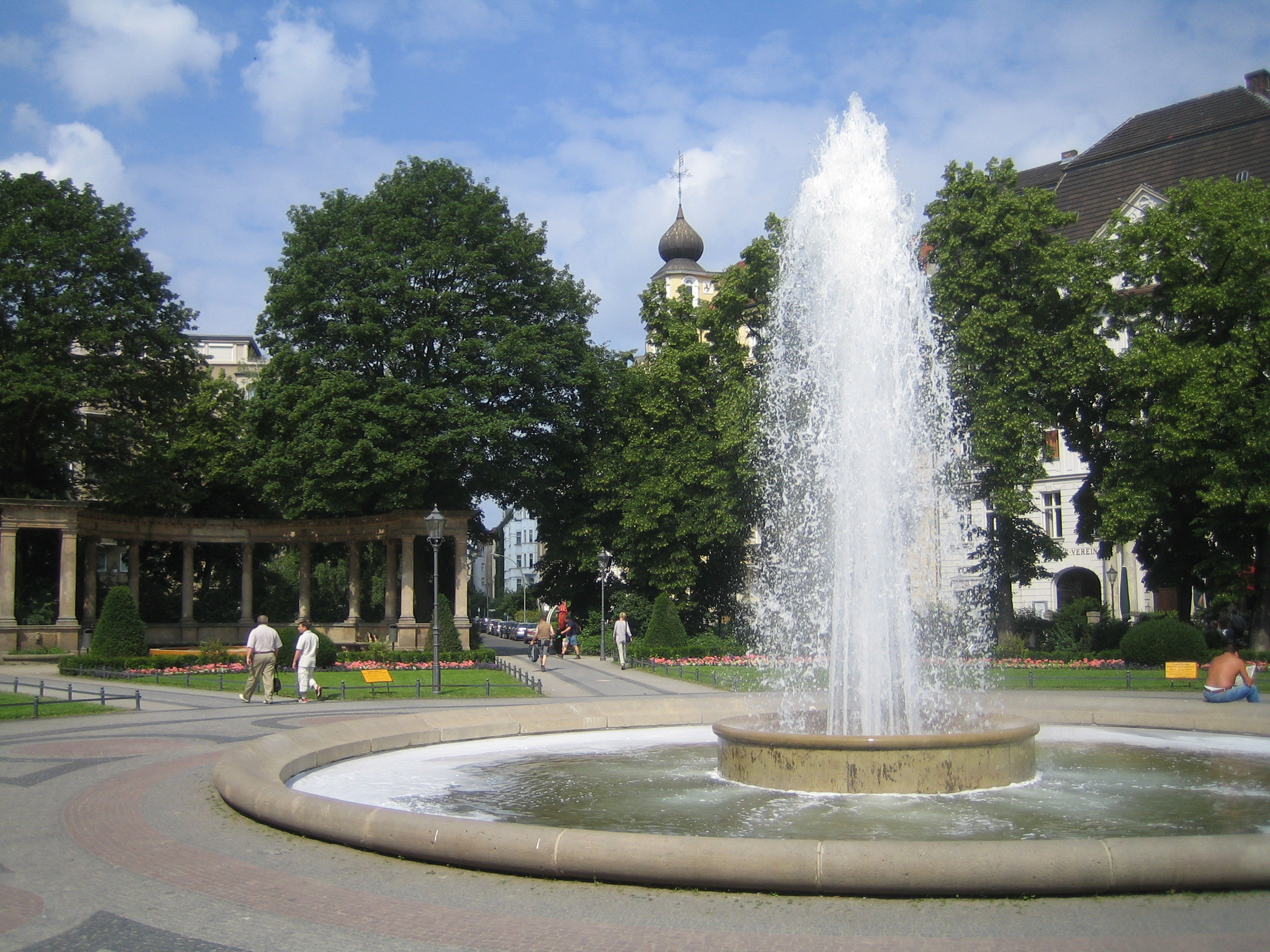 Berlin, Victoria-Luise-Platz with fountain.